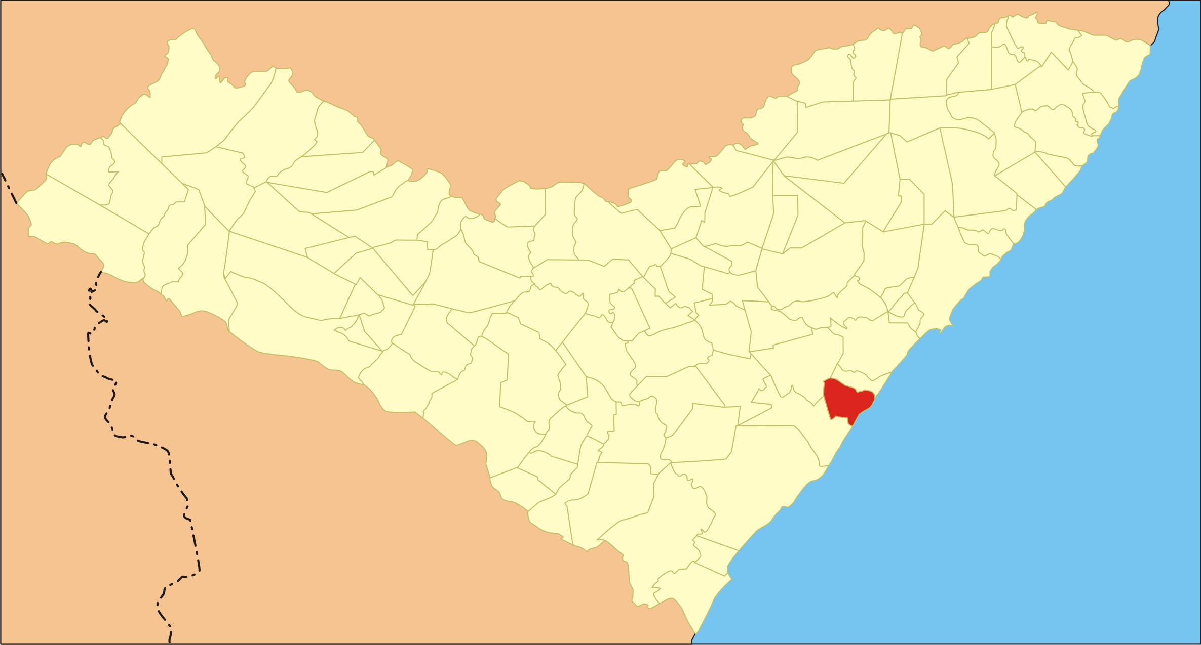 City localization in Alagoas